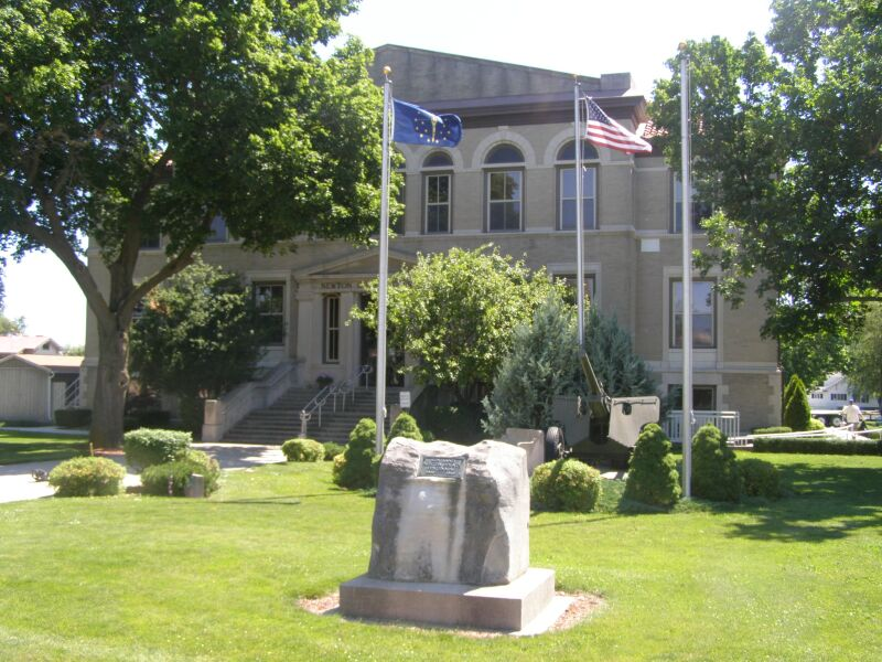 Newton County Courthouse in Kentland, Indiana